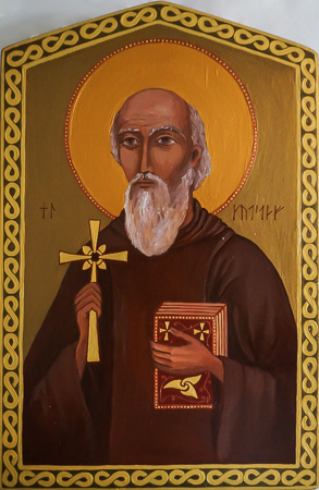 Icon, painting of Saint Gustav the Hermit, executed on wood